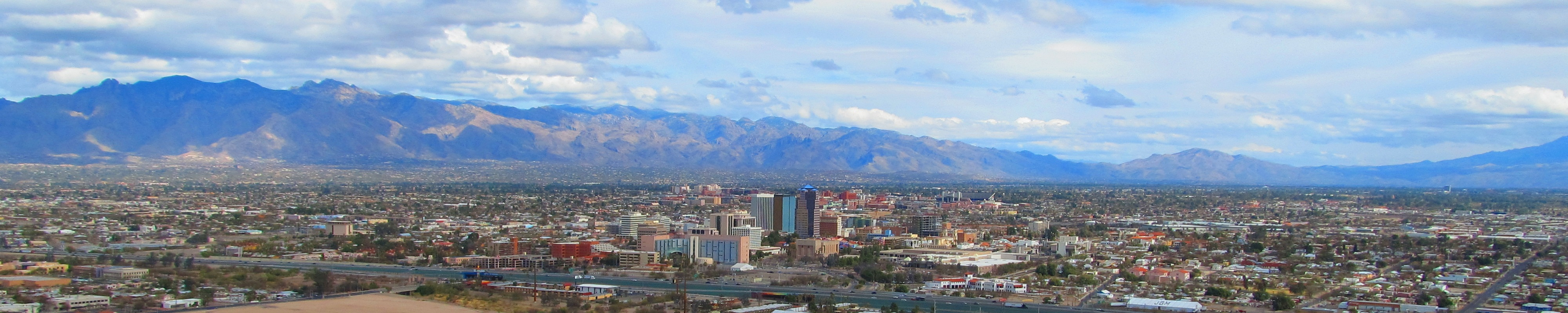 Wide view of the Tucson Basin, City of Tucson, the Santa Catalinas from Sentinel Peak.